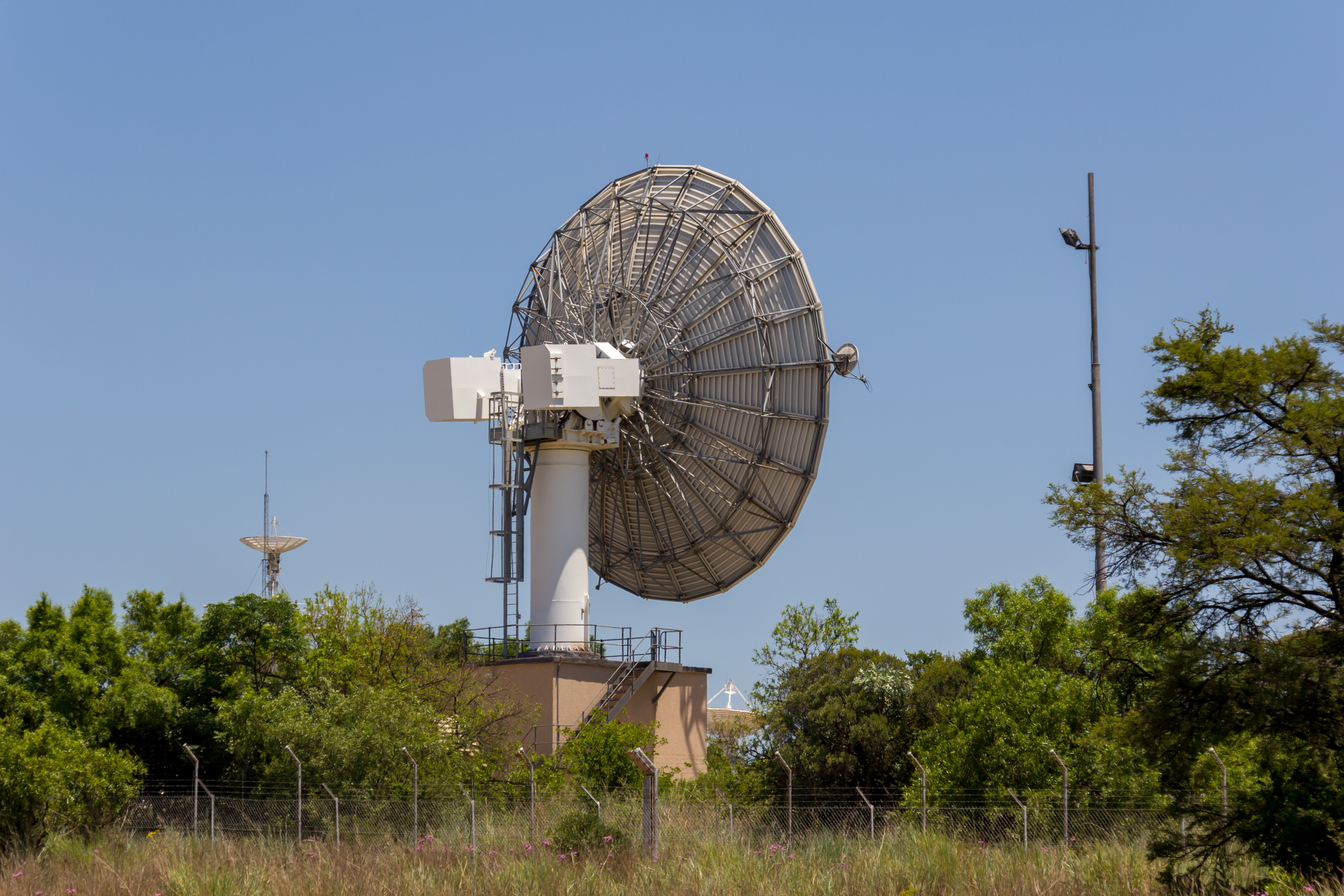 SANSA Hartebeesthoek station, South Africa.